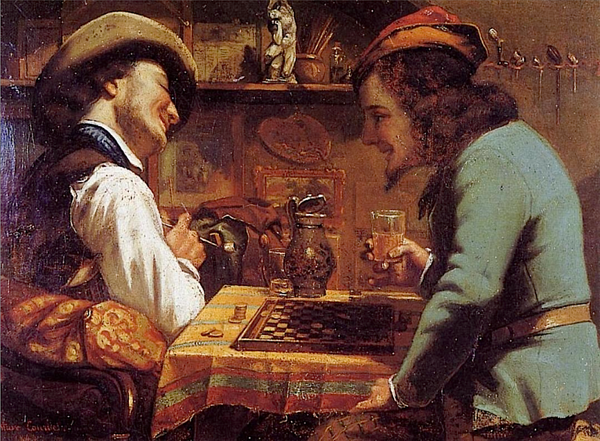 Les Joueurs de dames, known also as Coups de dames, Gustave Courbet jouant aux Cartes avec un ami (Paris, 1900).